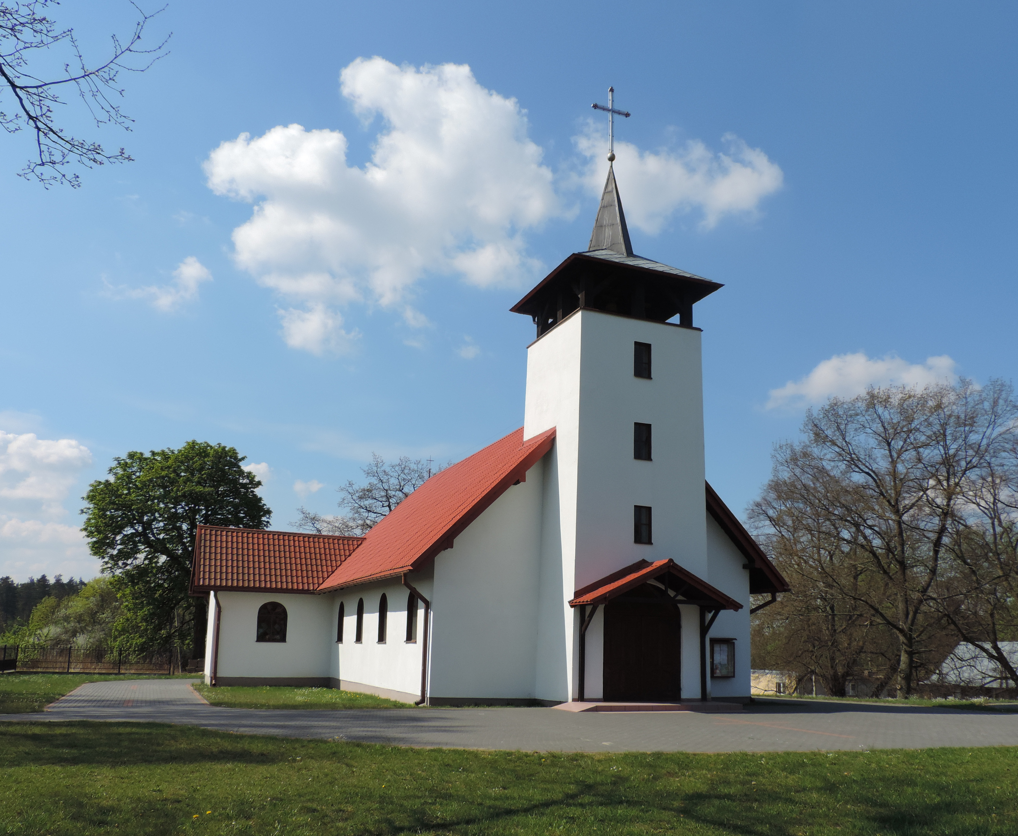 Church in village Redkowice in Pomeranian Voivodeship, Poland